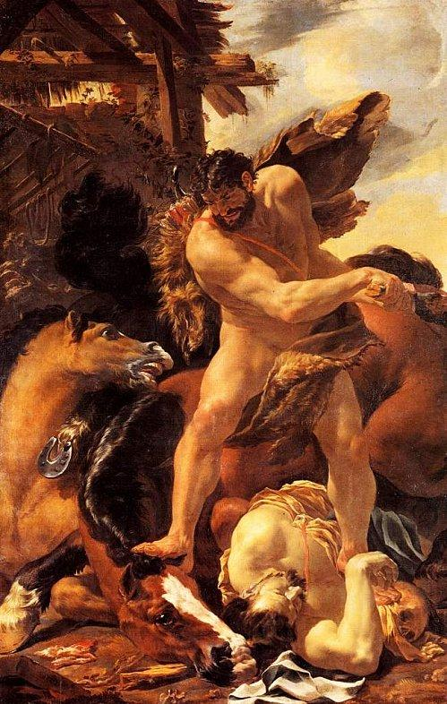 Charles Le Brun, Hercule et les juments de Diomède, 1641, Nottingham, Art Gallery